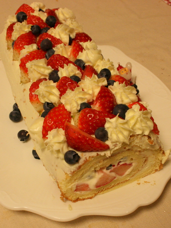 Strawberry Swiss roll with decoration